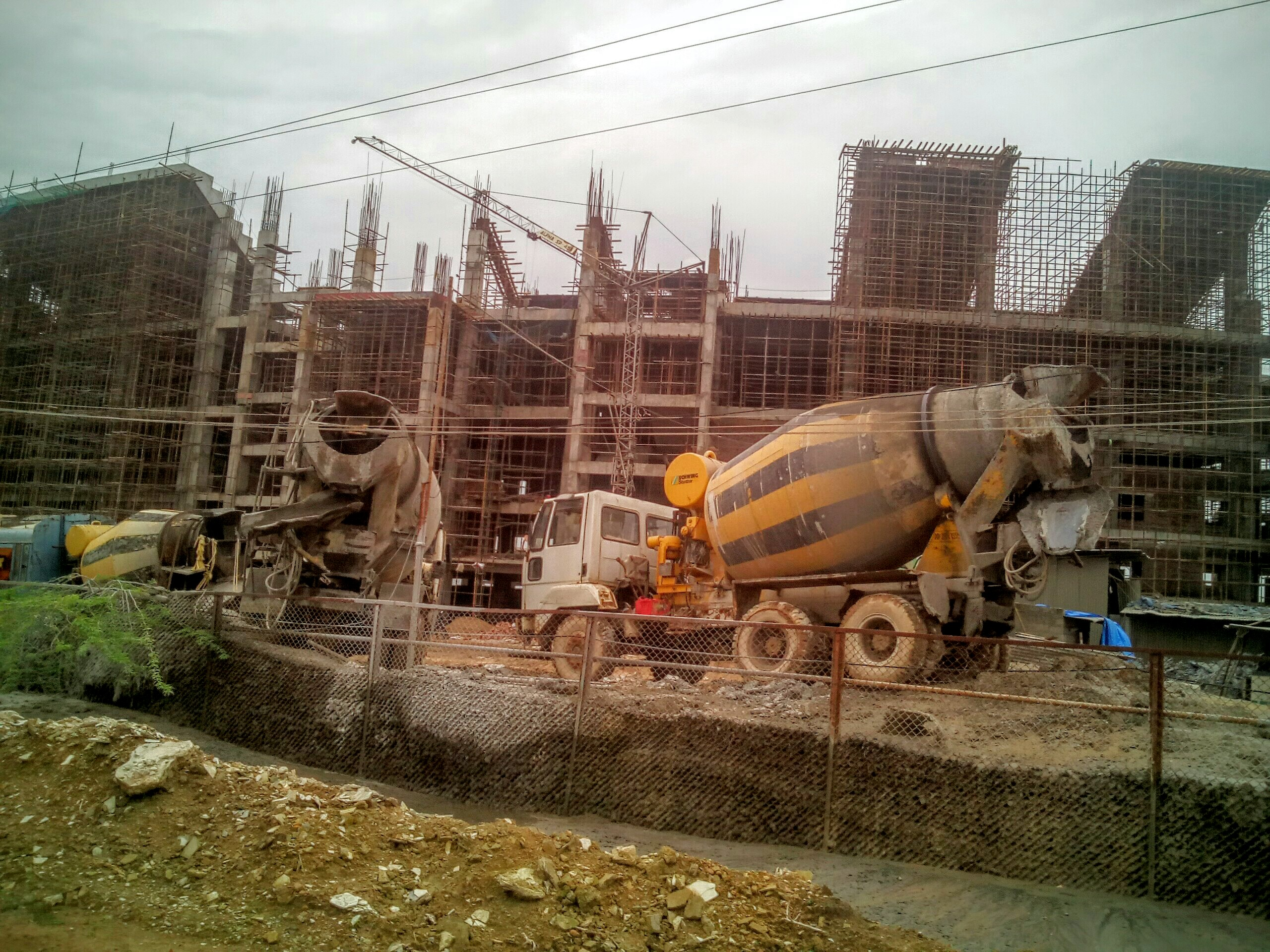 The Andhra Cricket Association international cricket stadium under construction at Mangalagiri.